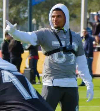 Minkah Fitzpatrick